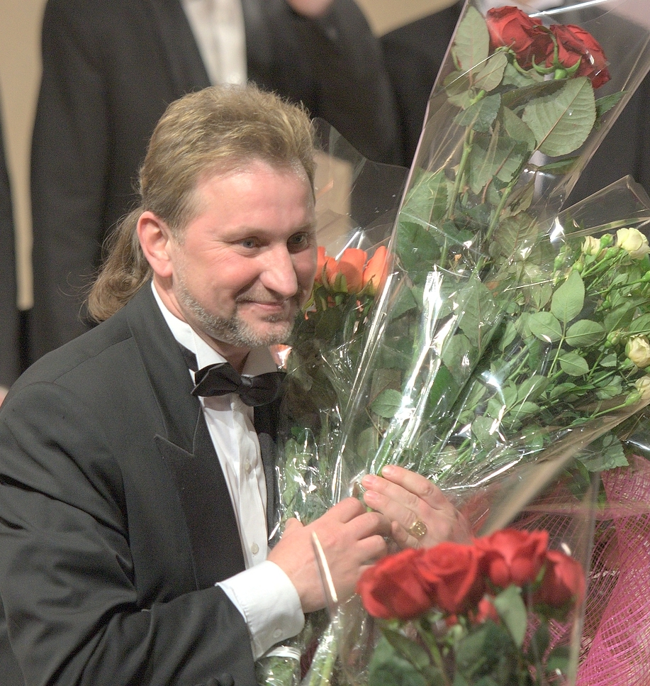 Mykola Hobdych, director and conductor of „Kyiv“ Chamber Choir (Kyiv, Ukraine) after the anniversary concert, 3 Apr. 2011. National Philharmonic of Ukraine, Kyiv.